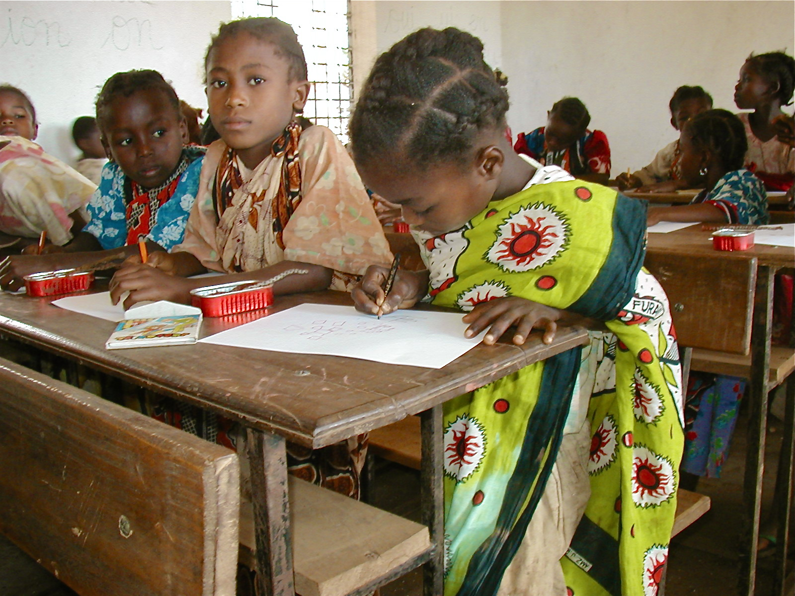 Education to the Comoros